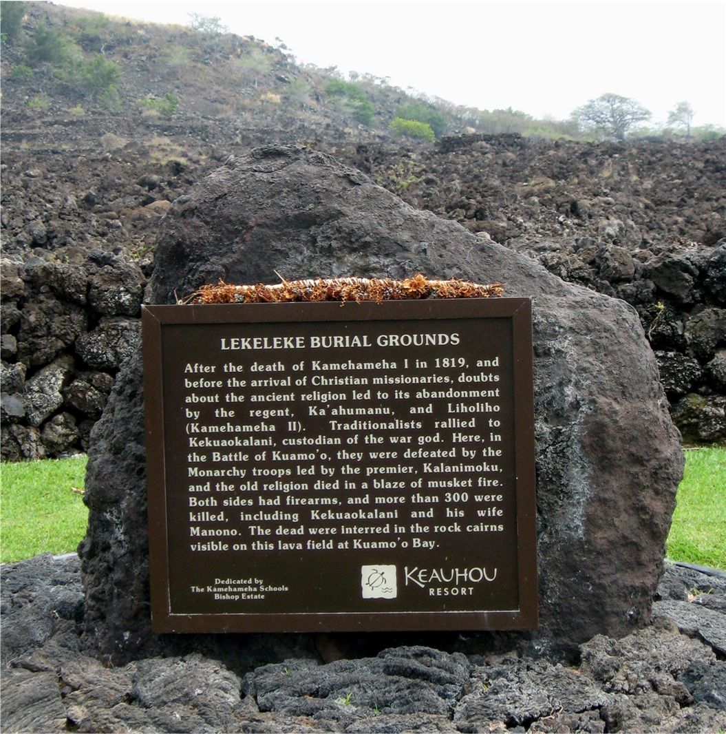 Memorial to the warriors killed in an 1819 battle at Kuamo'o Bay in the Lekeleke area, on the Big Island of Hawai'i